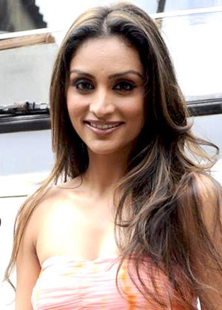 Purbi Joshi at the shooting of music video for Damadamm!.